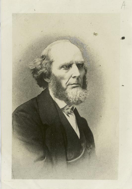 Charles Grandison Finney (1792–1875) was a minister of the gospel who became an important figure in the Second Great Awakening.